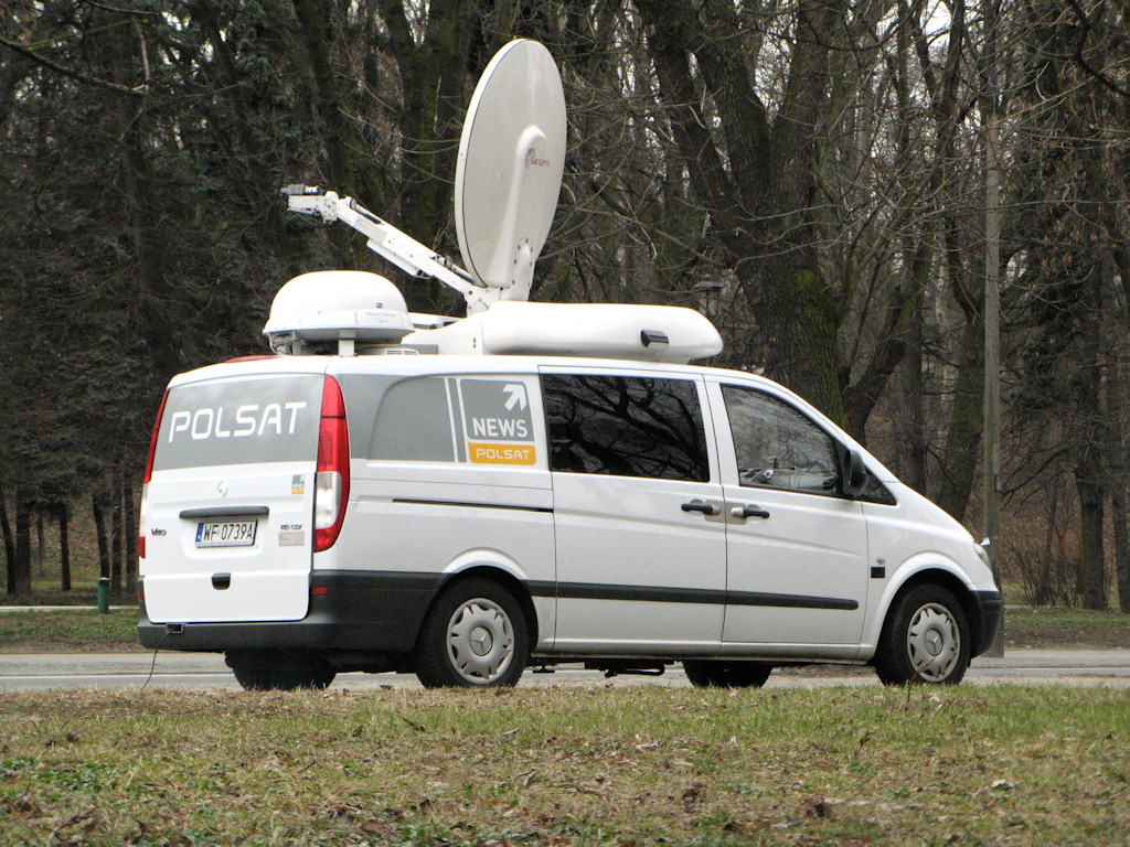 Outside broadcasting van of Polsat News TV channel.